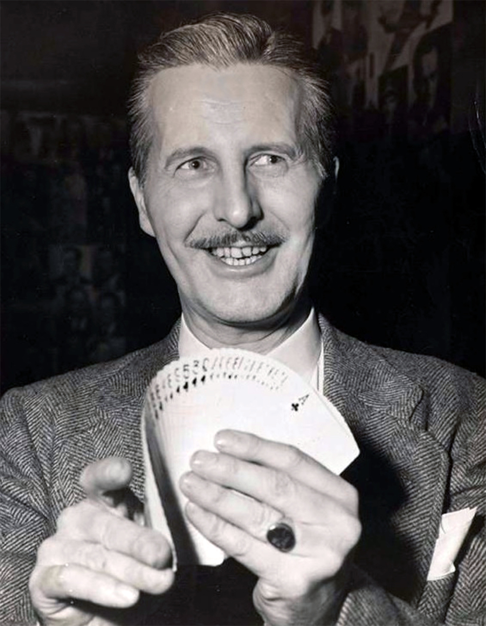 Dai Vernon fanning a deck of cards (pressure fan)